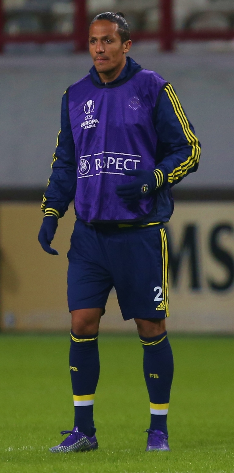 Bruno Alves